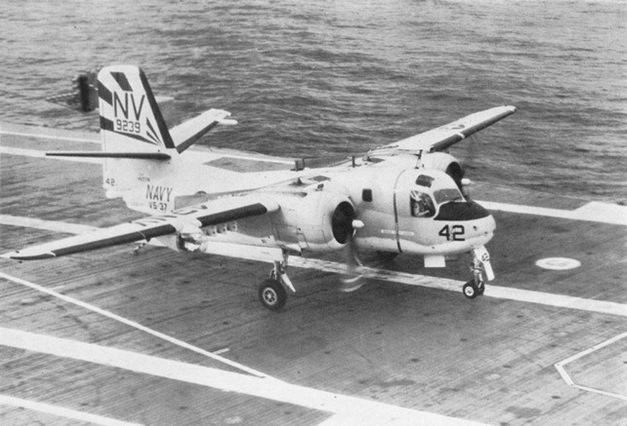 A U.S. Navy Grumman S-2D Tracker (BuNo 149239) from Anti-Submarine Squadron 37 (VS-37) "Sawbucks" taking off after a "bolter" aboard the aircraft carrier USS Hornet (CVS-12), circa in 1963. VS-37 was assigned to Carrier Anti-Submarine Air Group 57 (CVSG-57) aboard the Hornet for a deployment to the Western Pacific from 10 October 1963 to 15 April 1964.